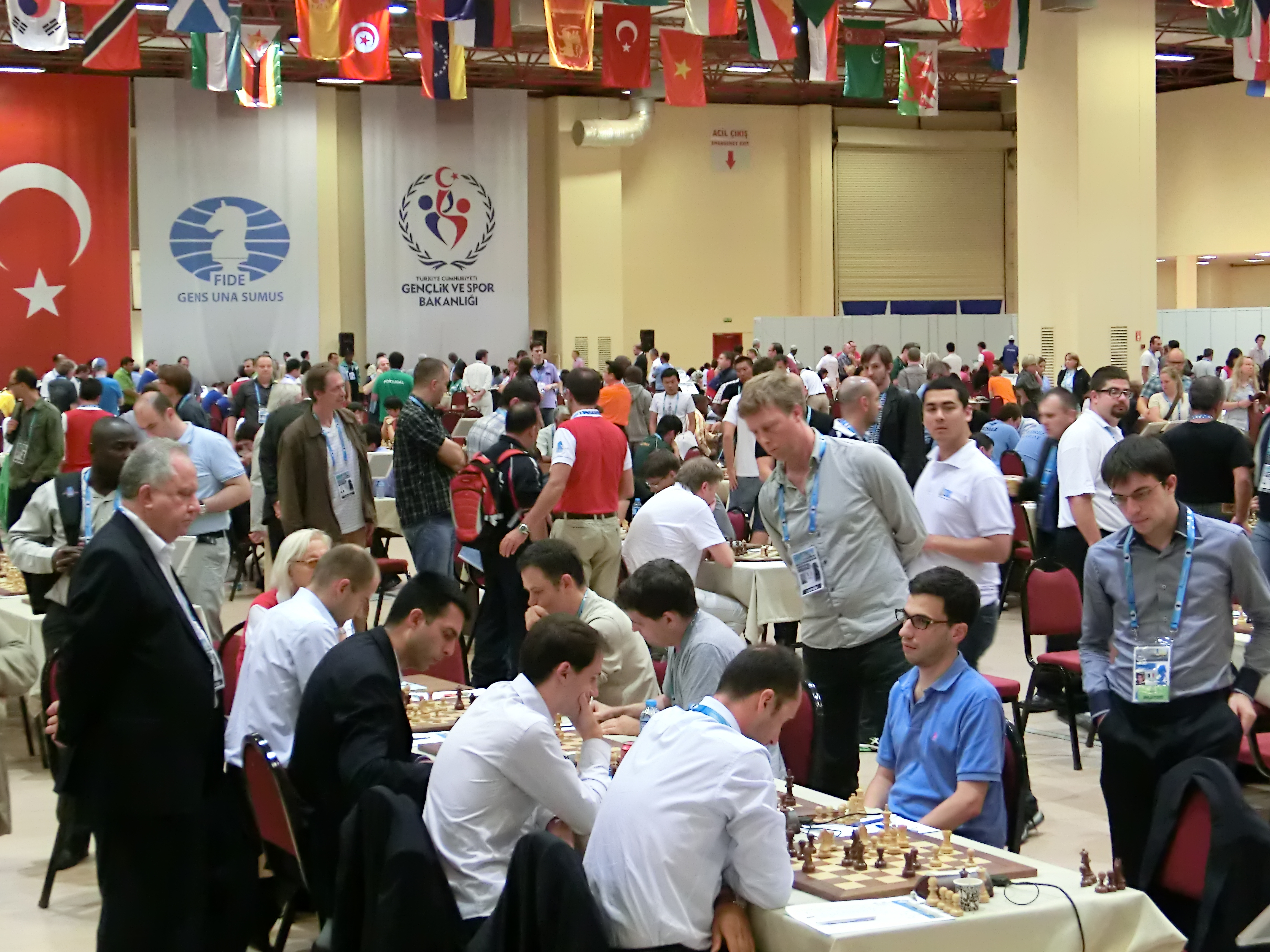 Chess Olympiad 2012 in Istanbul, playing hall; match France vs. Bulgaria